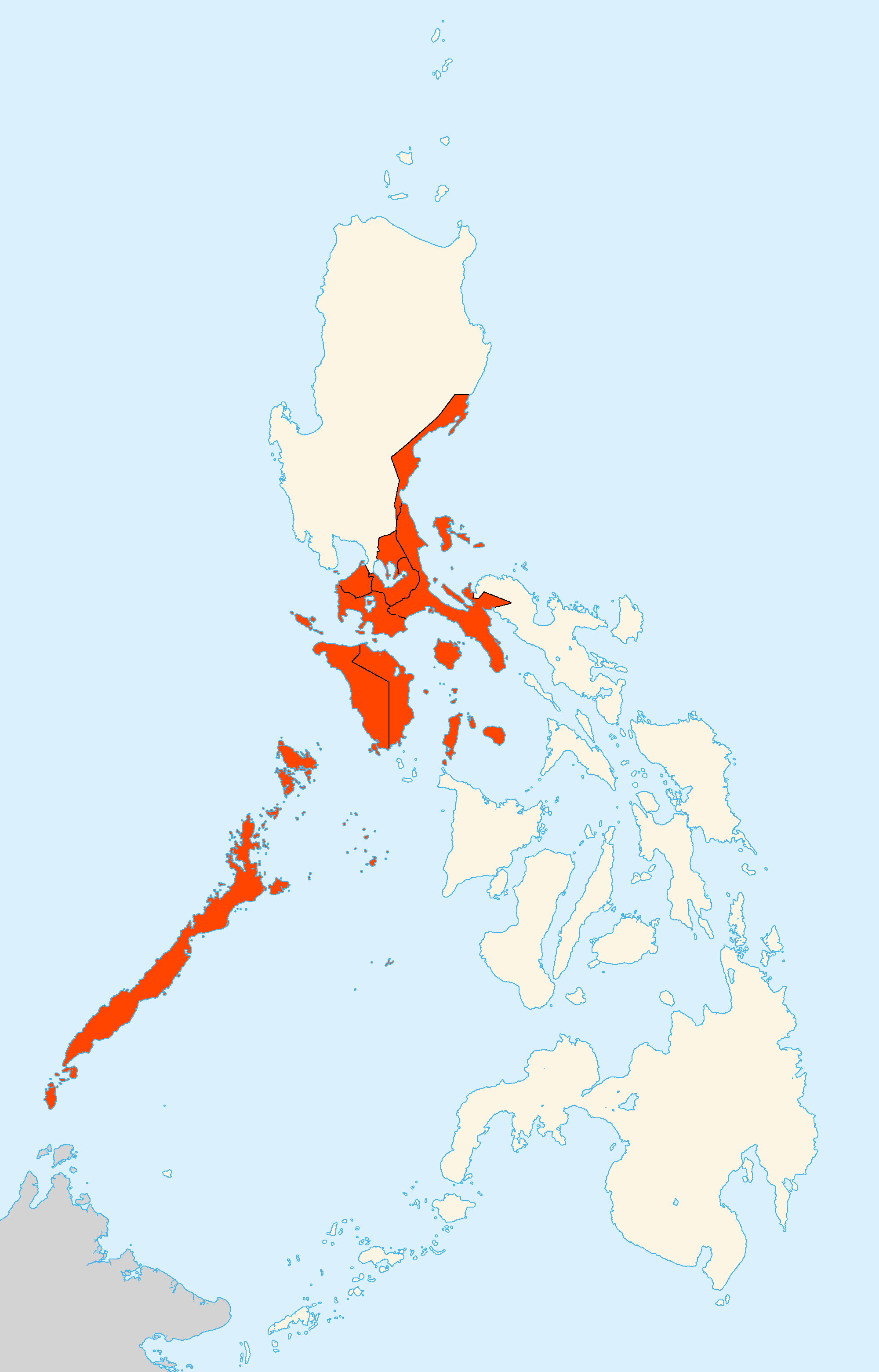 Map of Southern Tagalog Region